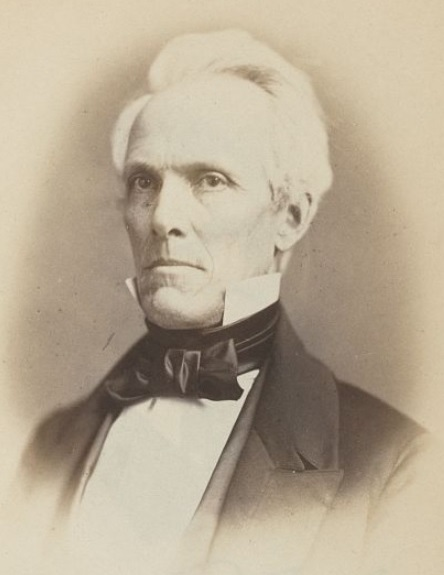 Nehemiah Abbott (Maine Congressman)